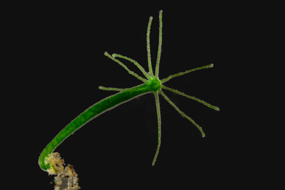 green Hydra, Hydra viridissima